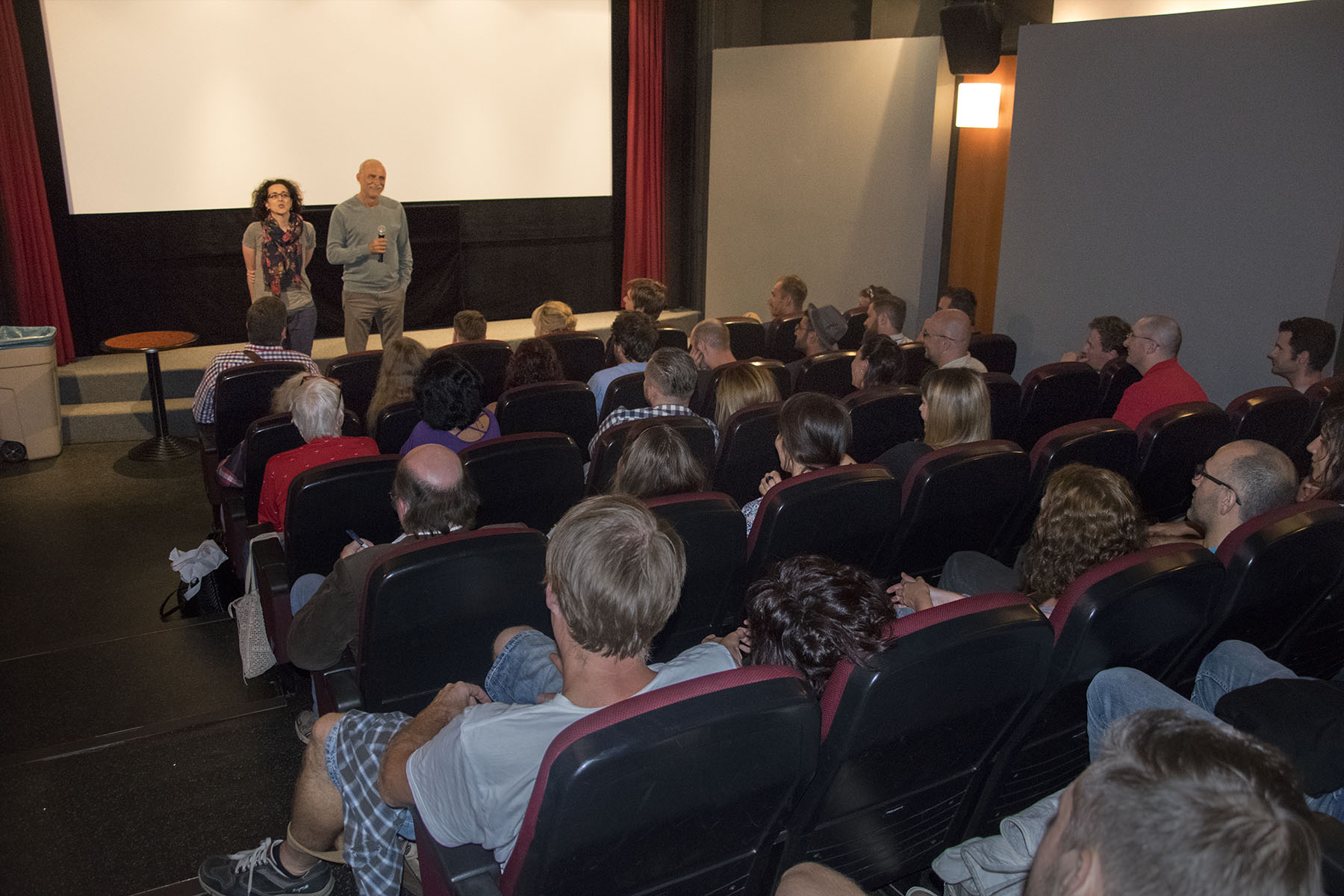 Actor Lazar Ristovski presenting the film "Train Driver's Diary" (Dnevnik mašinovođe) at the Prague Independent Film Festival in August, 2017.